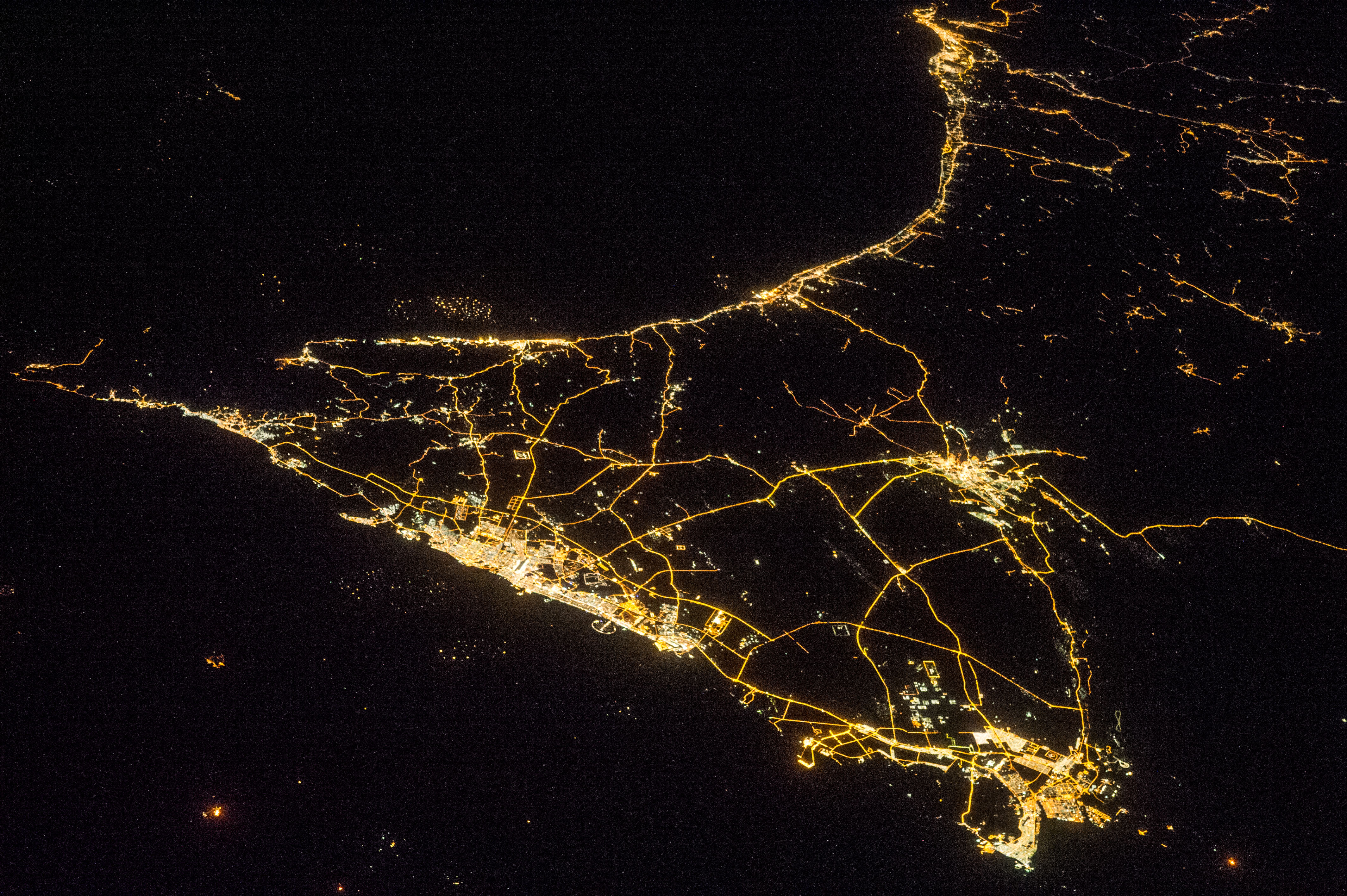 A nighttime view of the United Arab Emirates is featured in this image photographed by an Expedition 38 crew member on the International Space Station. Geographers like night images of cities because you see immediately so much about the human landscape–things that are difficult or impossible to see in day images. You see where the cities are located and their shape; the brightest light clusters frequently indicate the city centers. In large field of view images, such as this photograph of the United Arab Emirates (UAE), you can also see cities' position relative to one another and their relative size. Here the largest cluster of lights is the conurbation ("joined cities") of Dubai-Sharjah-Ajman (population 3.25 million), with its smaller neighbor Dubai (population 2.1 million). These cities front onto the Persian Gulf (also known as the Arabian Gulf) where the city lights are cut off abruptly at the coastline. The bright city centers are located at the coast showing that sea trade is important (and has been important) in the growth of these cities. Smaller cities are Al Ain (population 518,000), the fourth largest city in the UAE, and Fujairah (population 152,000). Major highways join the cities in a brightly lit network, and a faint peppering of lights offshore shows the relatively young oil and gas platforms on either side of the Musandam Peninsula (left). Despite being taken at night, the spike of the Musandam Peninsula is easy to imagine at the south end of the Persian Gulf. The biggest cities in the UAE are Abu Dhabi and Dubai. Muscat, the capital city of the neighboring country of Oman, appears top center. By contrast, the almost unpopulated Musandam Peninsula shows very few lights.